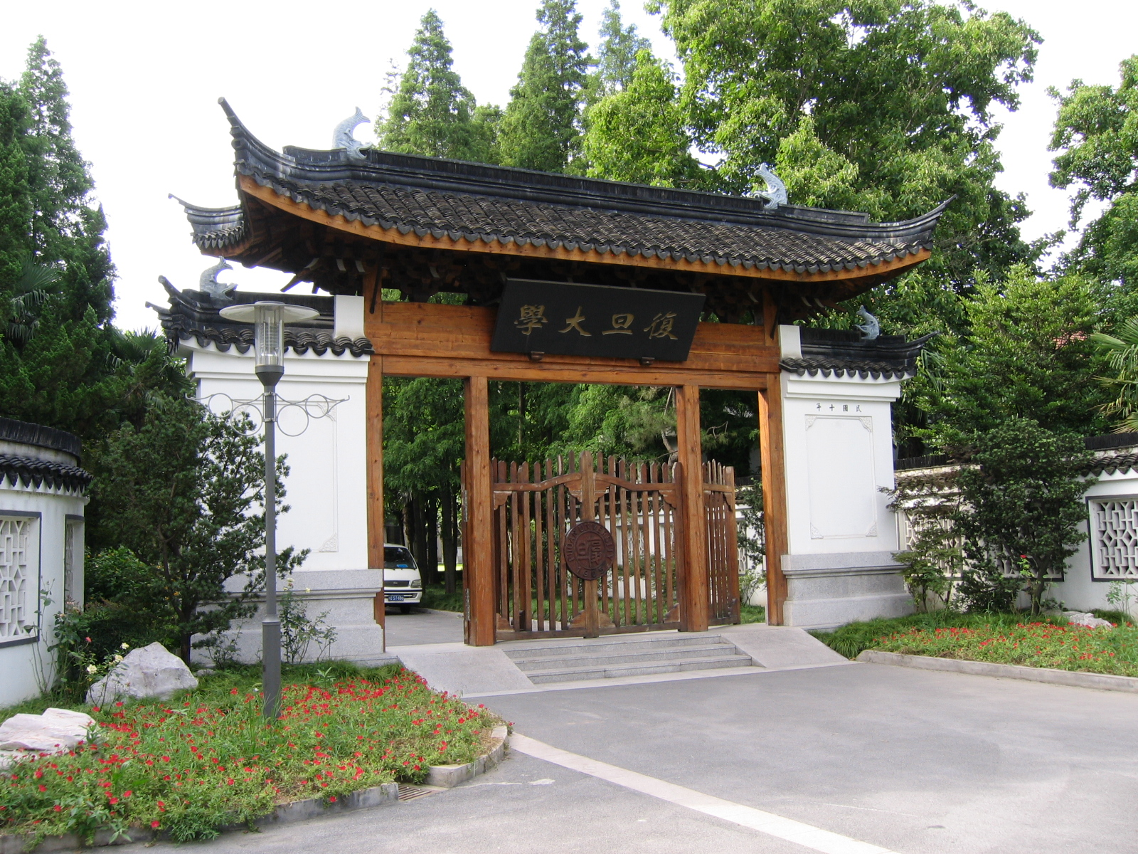 A replica of original gate to Fudan Campus, Shanghai, China